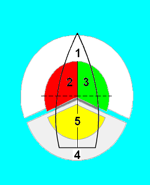 Arc of visibility of navigation light.